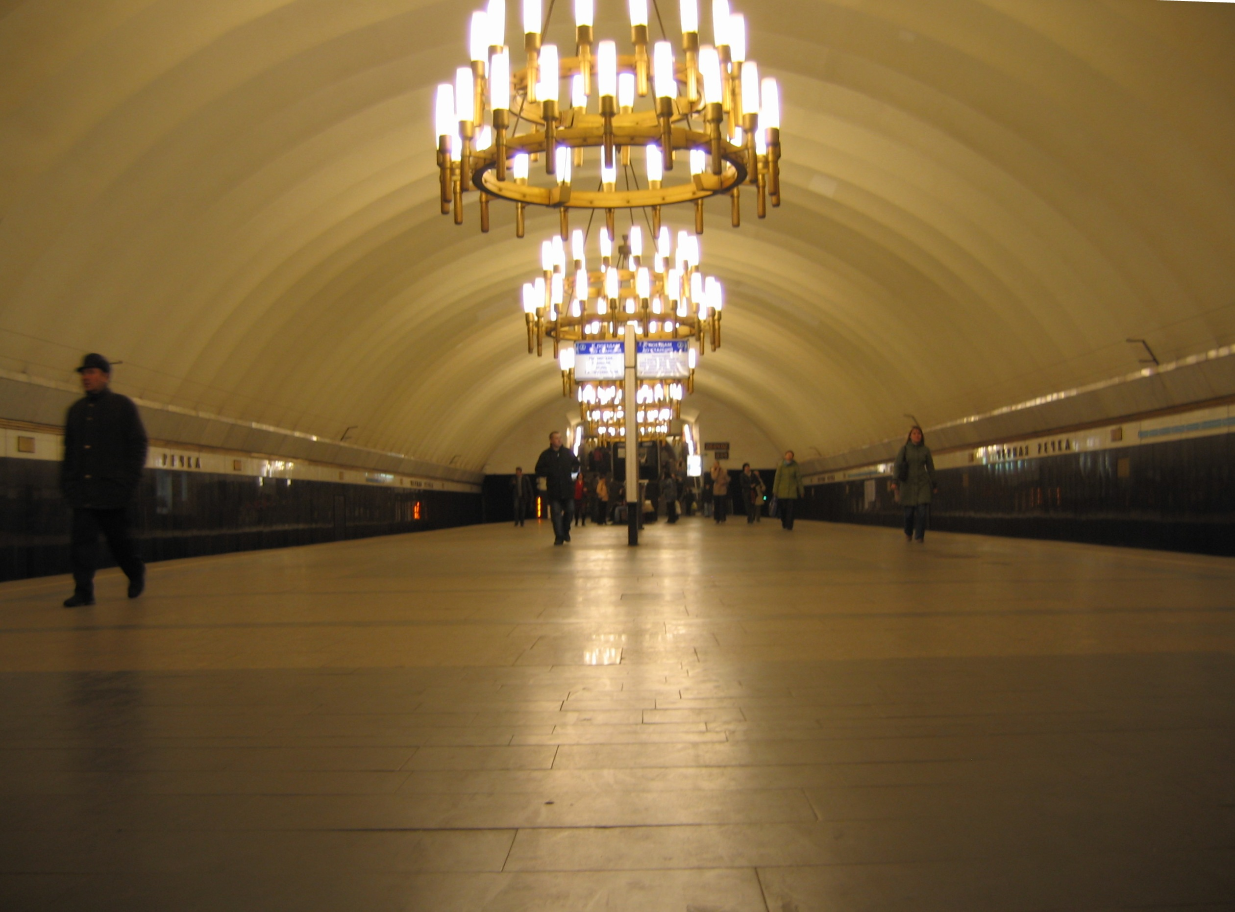 Chyornaya rechka subway station, St. Peterburg, Russia